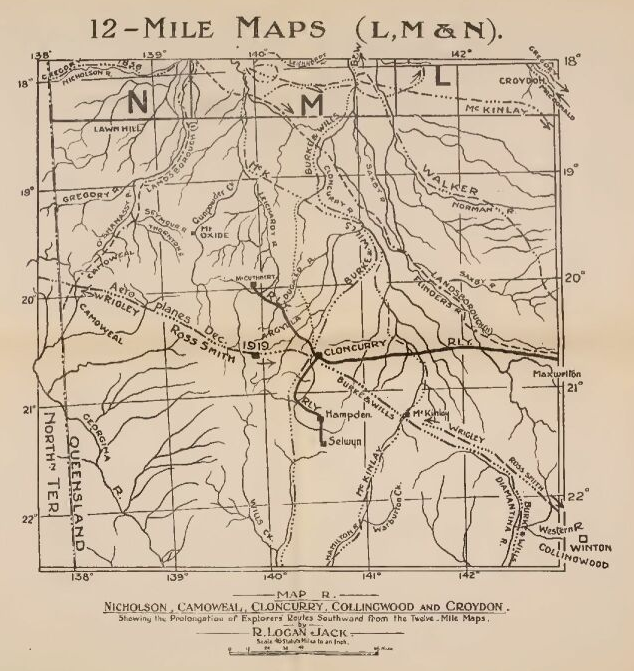 Map of Western Queensland showing various places and routes taken by European explorers (albeit not always accurate)